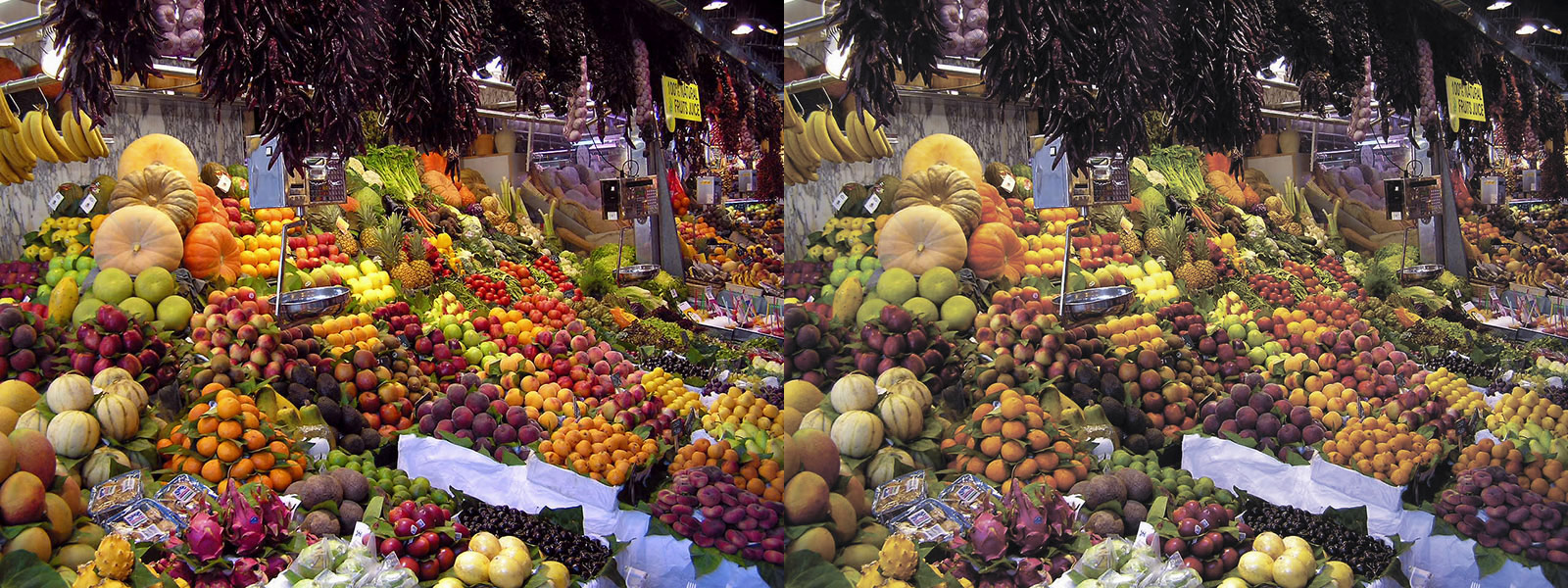 This is a regroupment of the color enhanced version of La Boqueria and a CMYK conversion destined for newspaper, in order to really demonstrate the impact that can happen in vivid colors when a CMYK conversion occurs